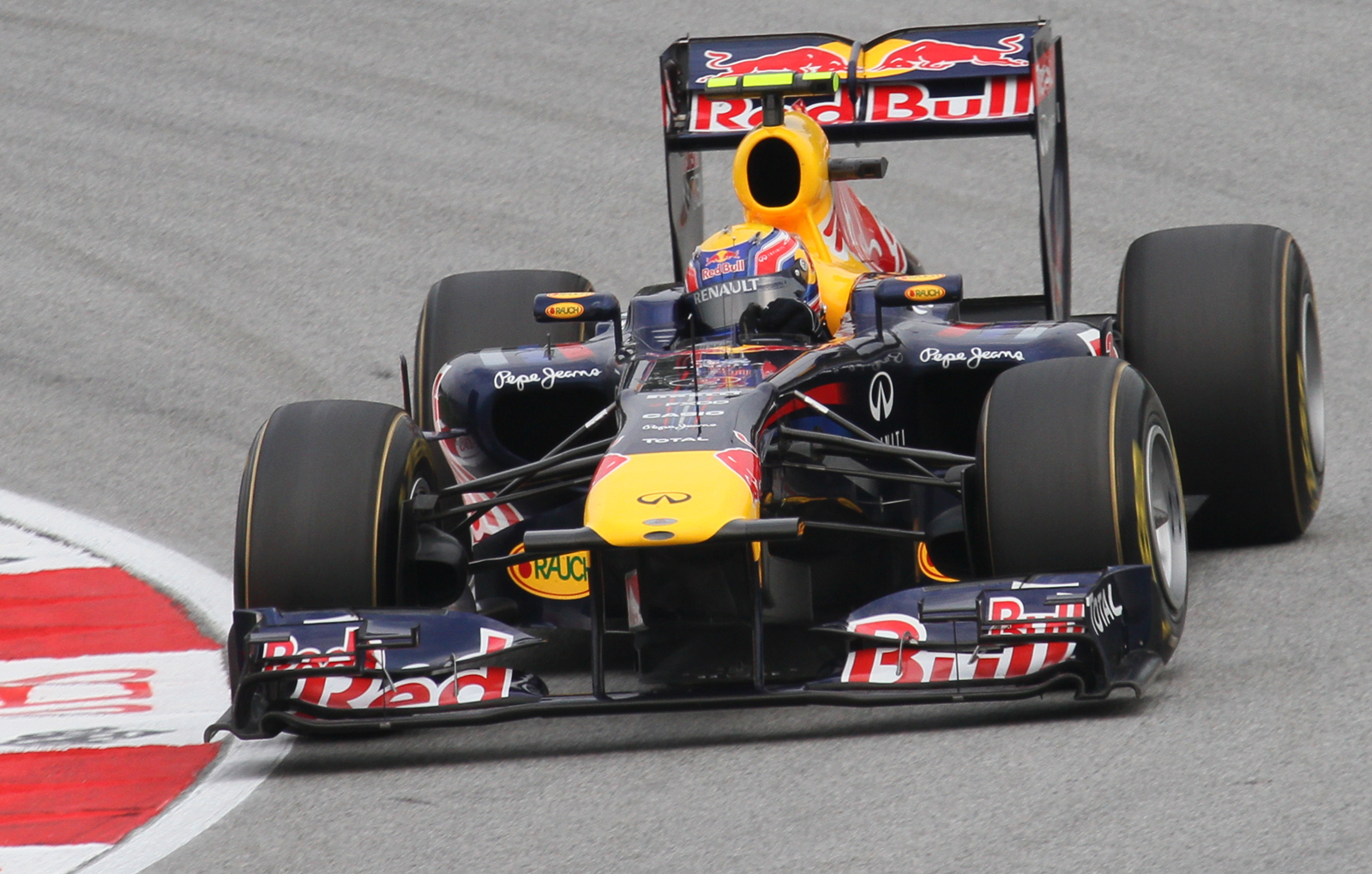 Formula One 2011 Rd.2 Malaysian GP: Mark Webber (Red Bull) during the qualify session on Saturday.